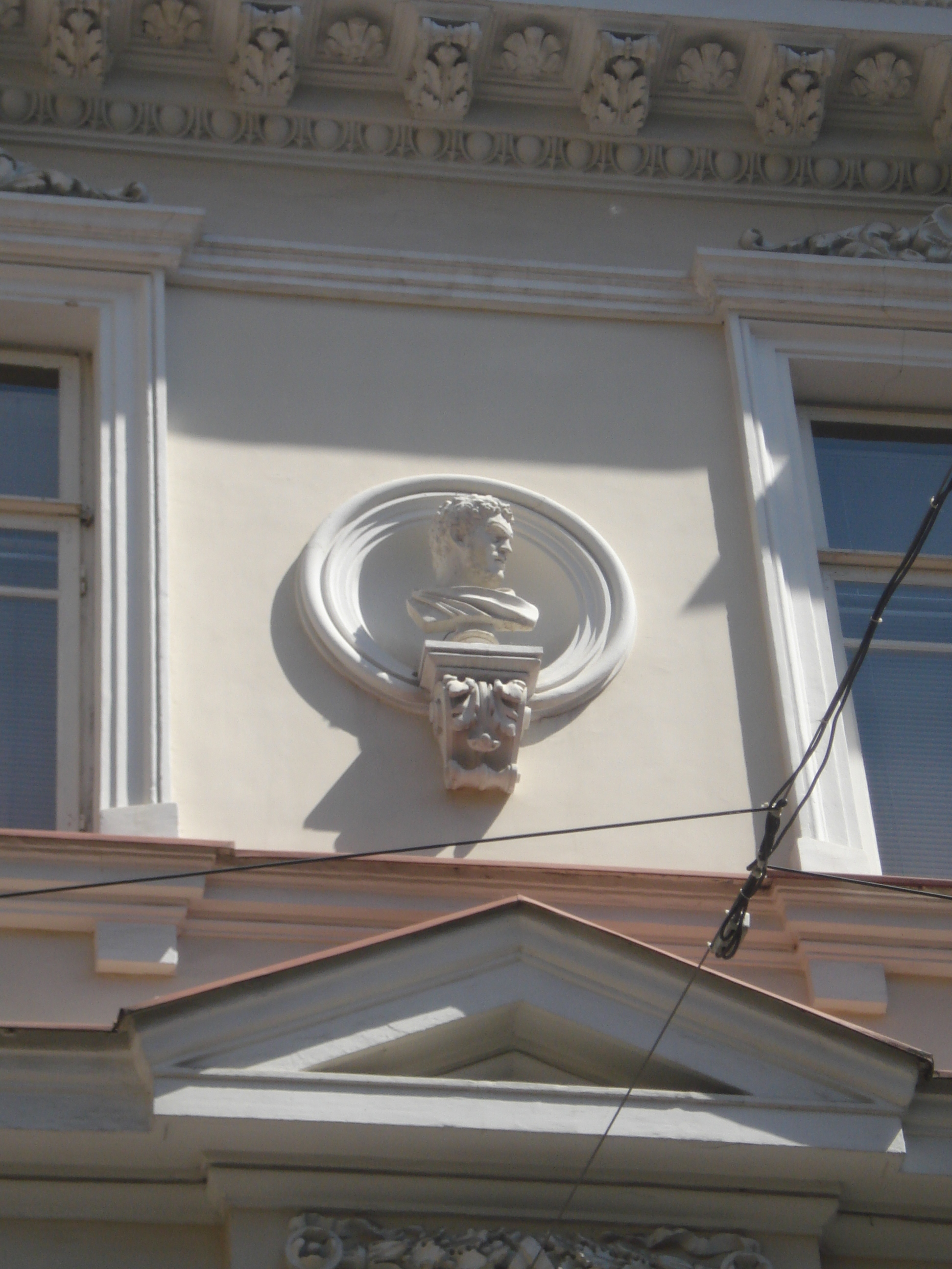 House of Signatories in Vilnius. Detail